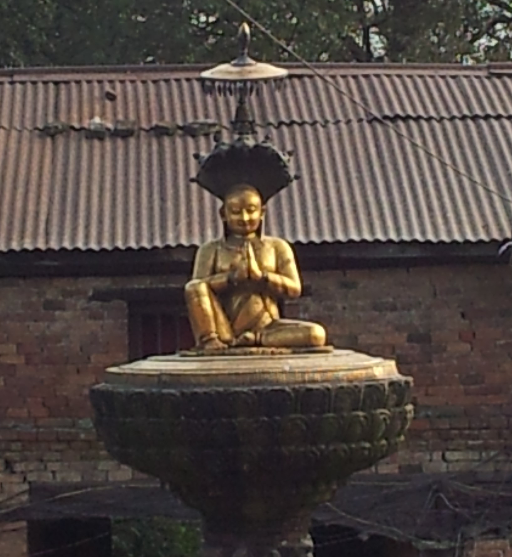 Statue of Queen Tripurasundari at Tripureshowr Temple in Kathmandu